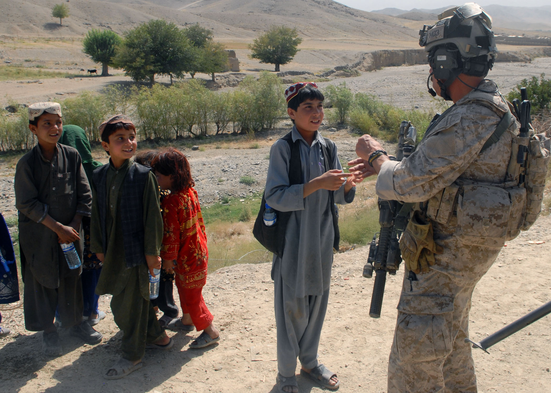 An Afghan boy interacts with a coalition special operations forces member in the village of Bagh, Arghandab district, Aug. 30.